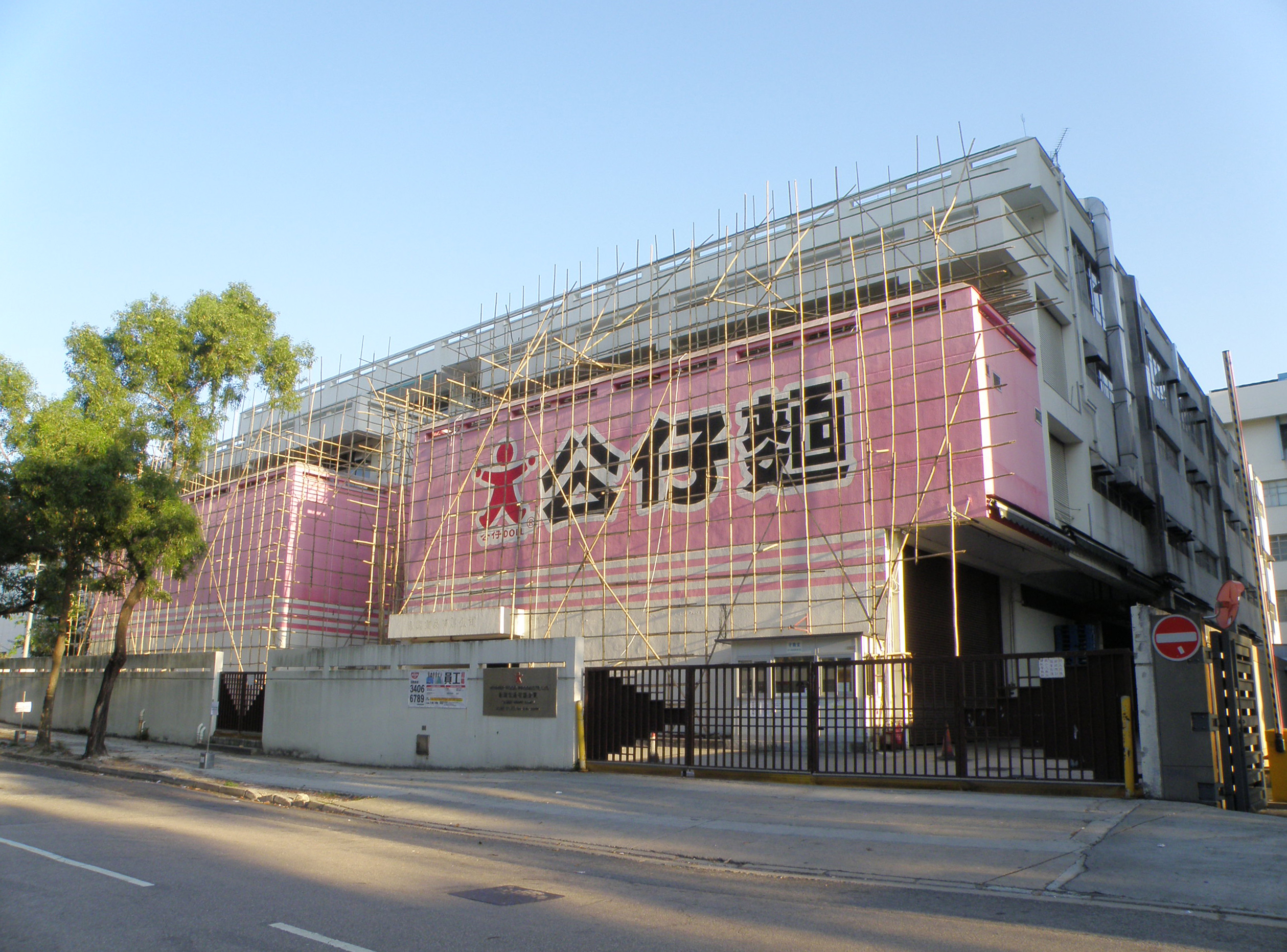 Winner Food Products Limited in Tai Po, Hong Kong.